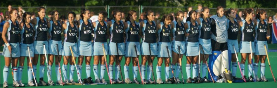 Field hockey. Las Leonas. Argentina. Complete team 2008.